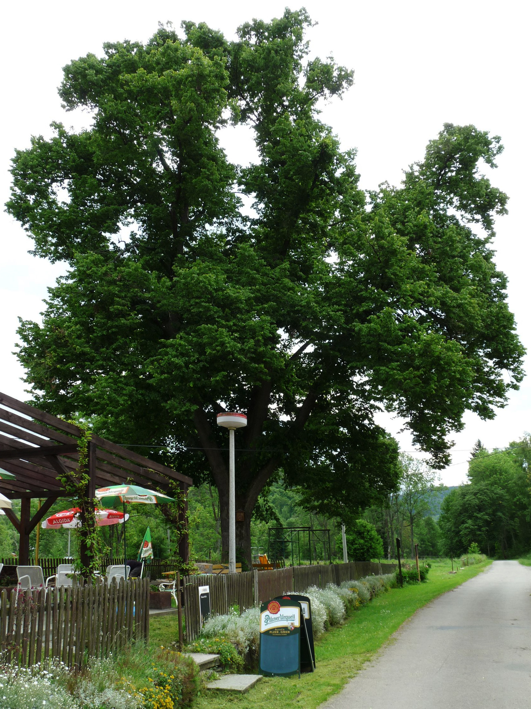 Tilia cordata in the village of Radešov, part of the town of Rejštejn, Klatovy District, Plzeň Region, Czech Republic.